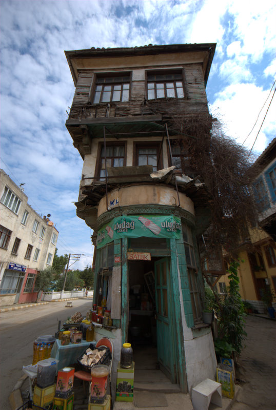 Grocery store in Gölyazı, Nilüfer.